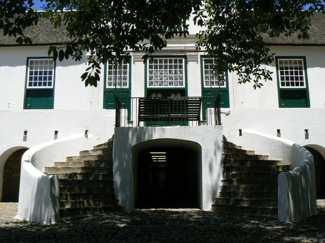 Reinet House, Murray Street, Graaff-Reinet, now a museum complex housing artifacts depicting life in the early years of Graaff-Reinet This media shows a South African Protected Site with SAHRA file reference 9/2/033/0002-575.